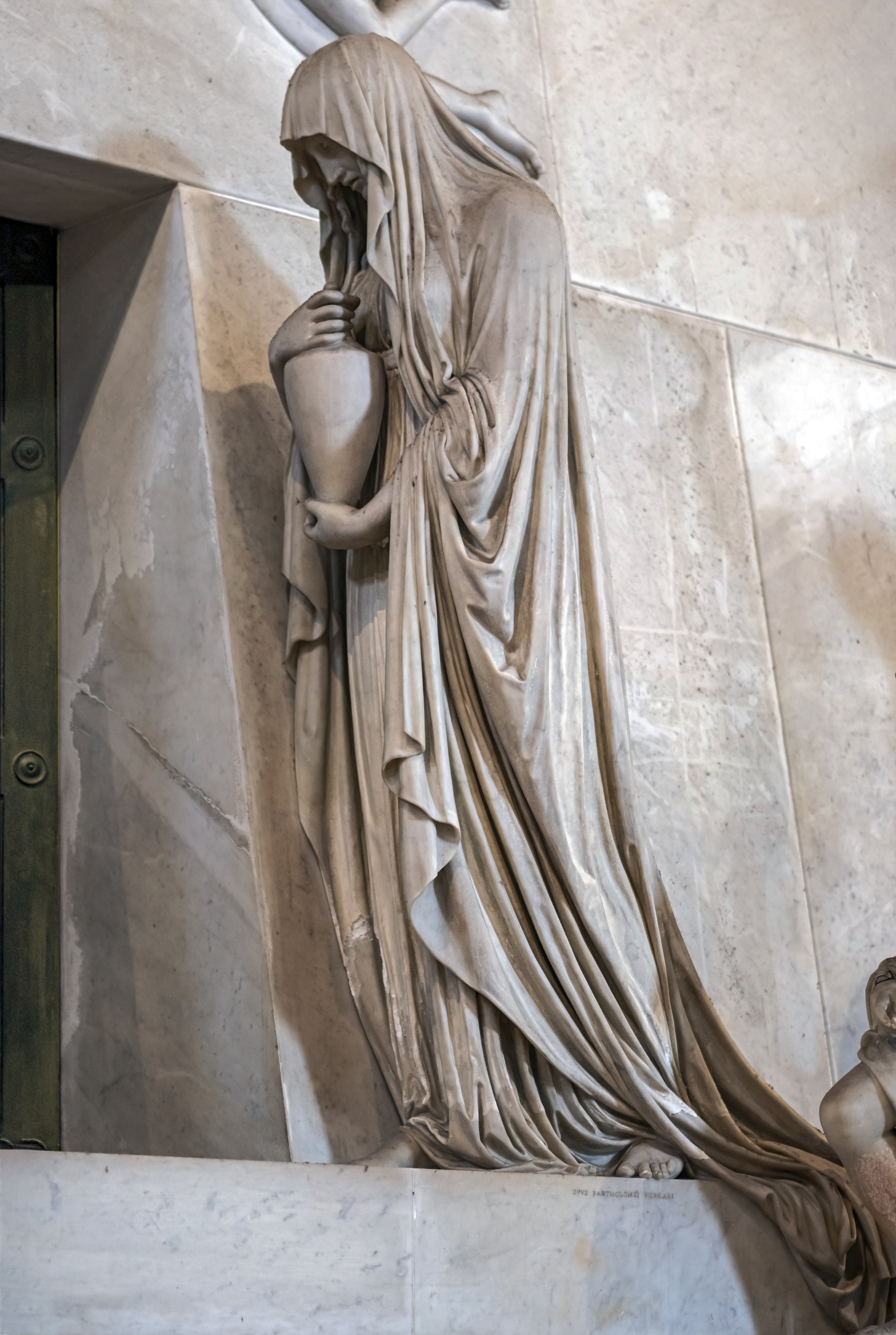 The Basilica di Santa Maria Gloriosa dei Frari, monument to Canova.In 1794 Antonio Canova designed and built a model for the tomb of Titian, but there were many difficulties in raising the necessary funds for the construction, so that in 1822, the year of Canova's death, it was still in draft form. Canova was buried in Possagno, his native country, the Academy of Fine Arts of Venice decided to build a monument to preserve the porphyry urn containing the heart of the artist; the work was undertaken by six of his students and completed in 1827. The sculpture that brings Canova's heart into an urn - Vicenza Bartolomeo Ferrari - 1827.